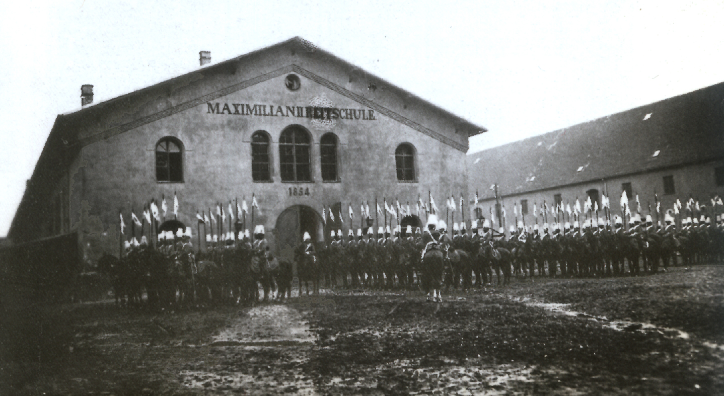 Cavalry squadron of the bavarian „1. Schwere-Reiter-Regiment Prinz Karl von Bayern“ (1. Heavy Cavalry Regiment) parading at the Neue Isarkaserne barracks in Munich.